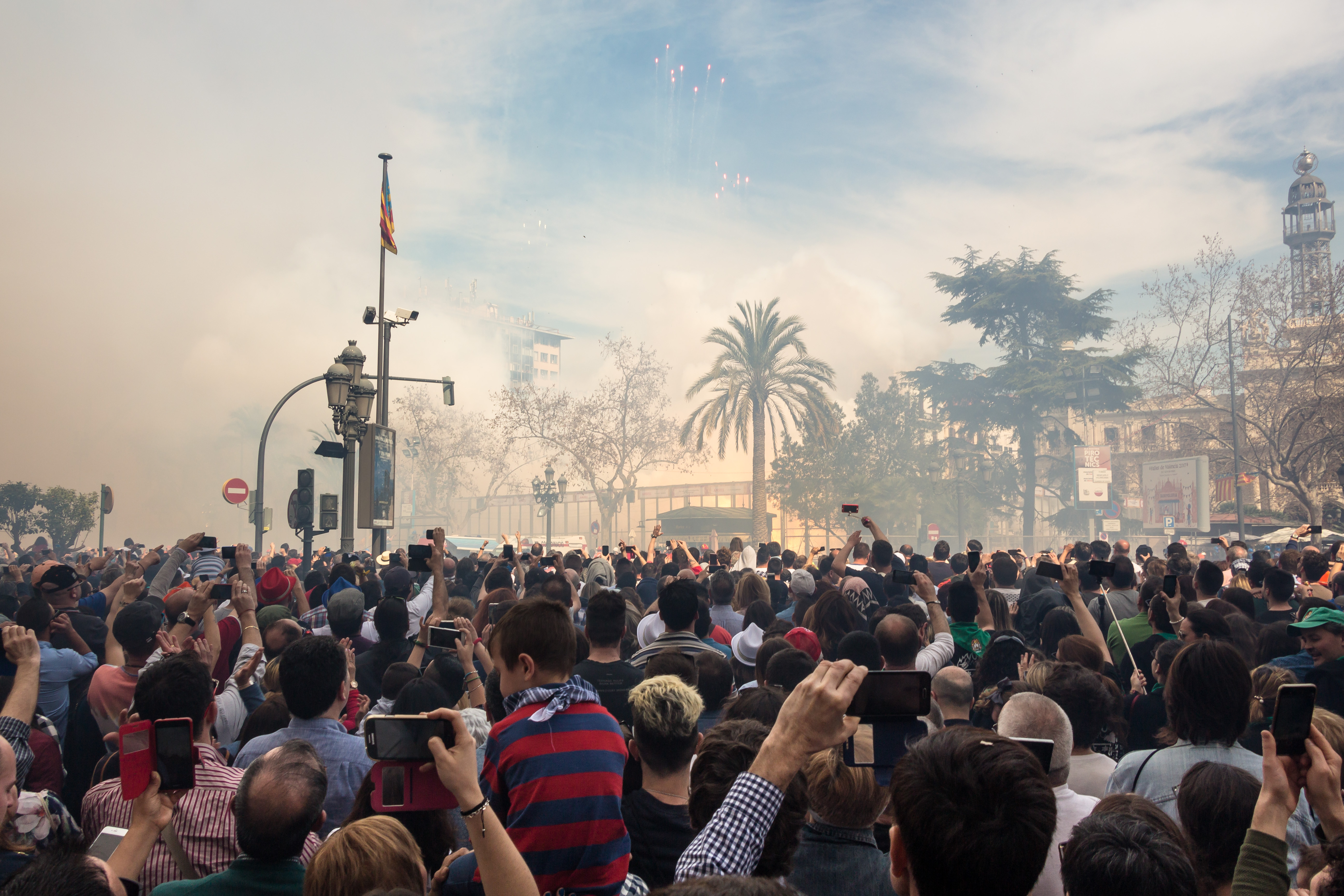 The "mascletà" (a daytime fireworks show, based on noise and rhythm, rather than colour) it's one of the more important events on a Fallas day, be it on the Plaza del Ayuntamiento or in a neighbourhood falla. Among the smoke you can see the paper "debris" from the exploding firecrackers (called "masclets"). This is a photography of a Folklore festival in Spain (Wikidata id Q1143768).